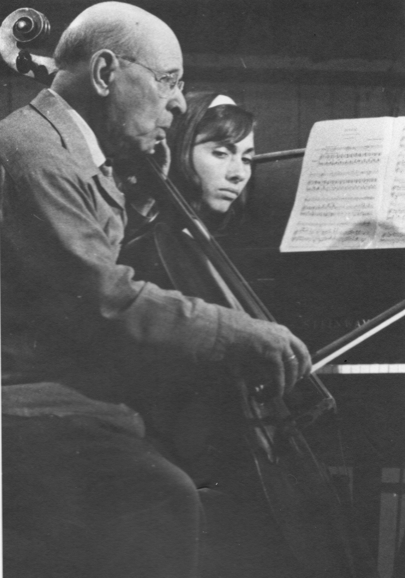 Ruth Laredo taking classes with Pablo Casals